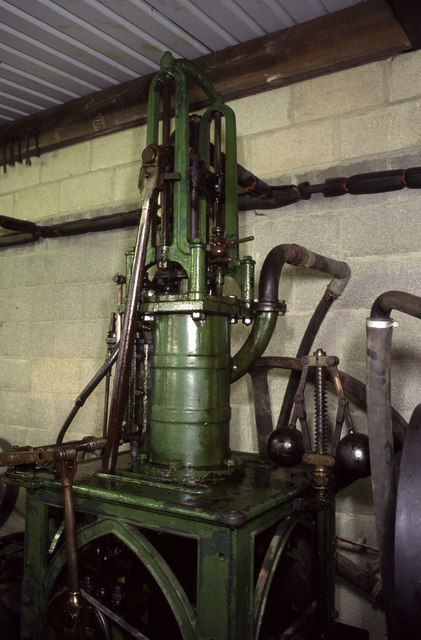 Steam engine, Bygones Museum, Claydon, Oxfordshire. A table engine built by Lampitt of Banbury in about 1850 and used at the brewery of Hunt, Edmunds in Banbury.